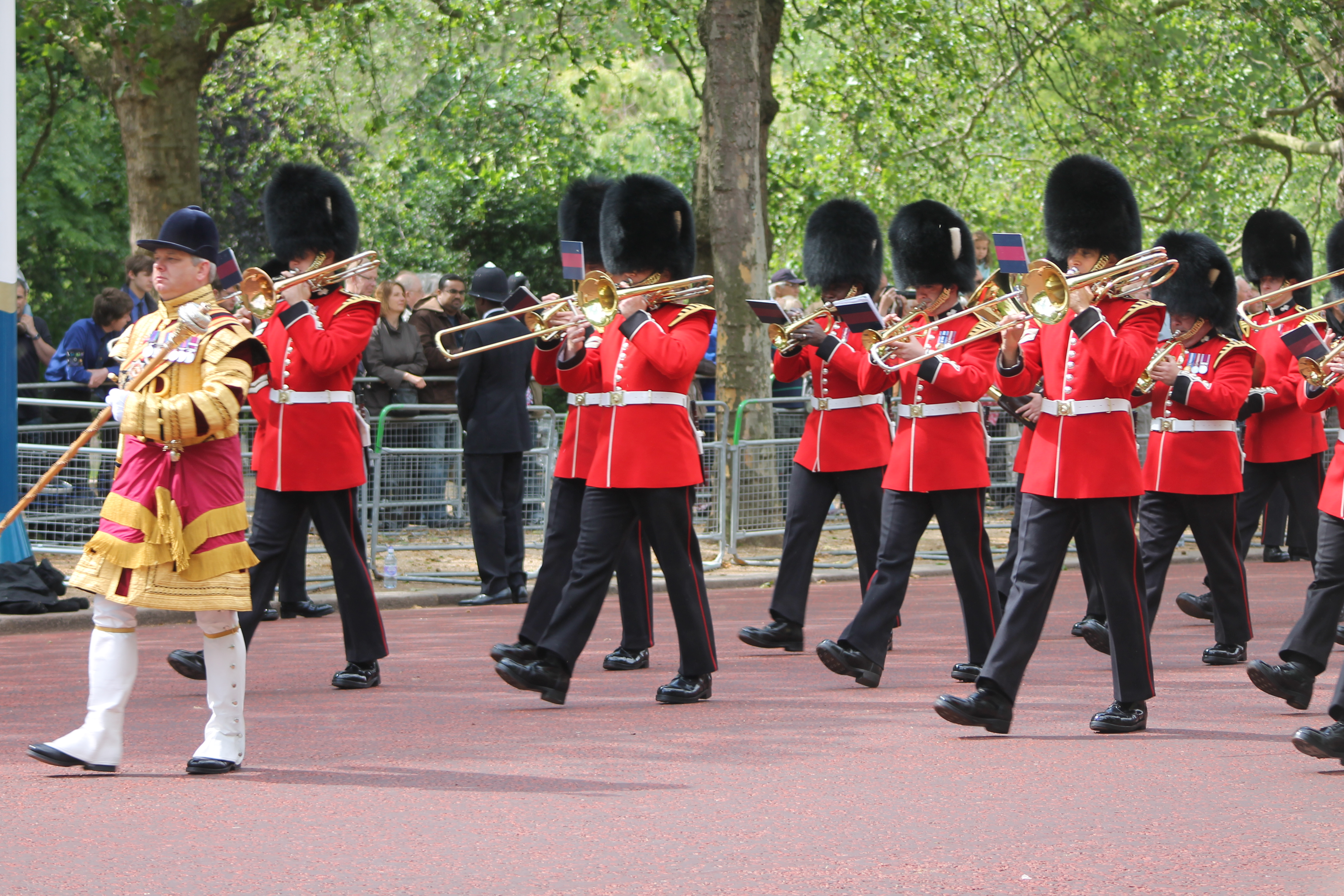 Trooping the colour procession, 16 June 2012